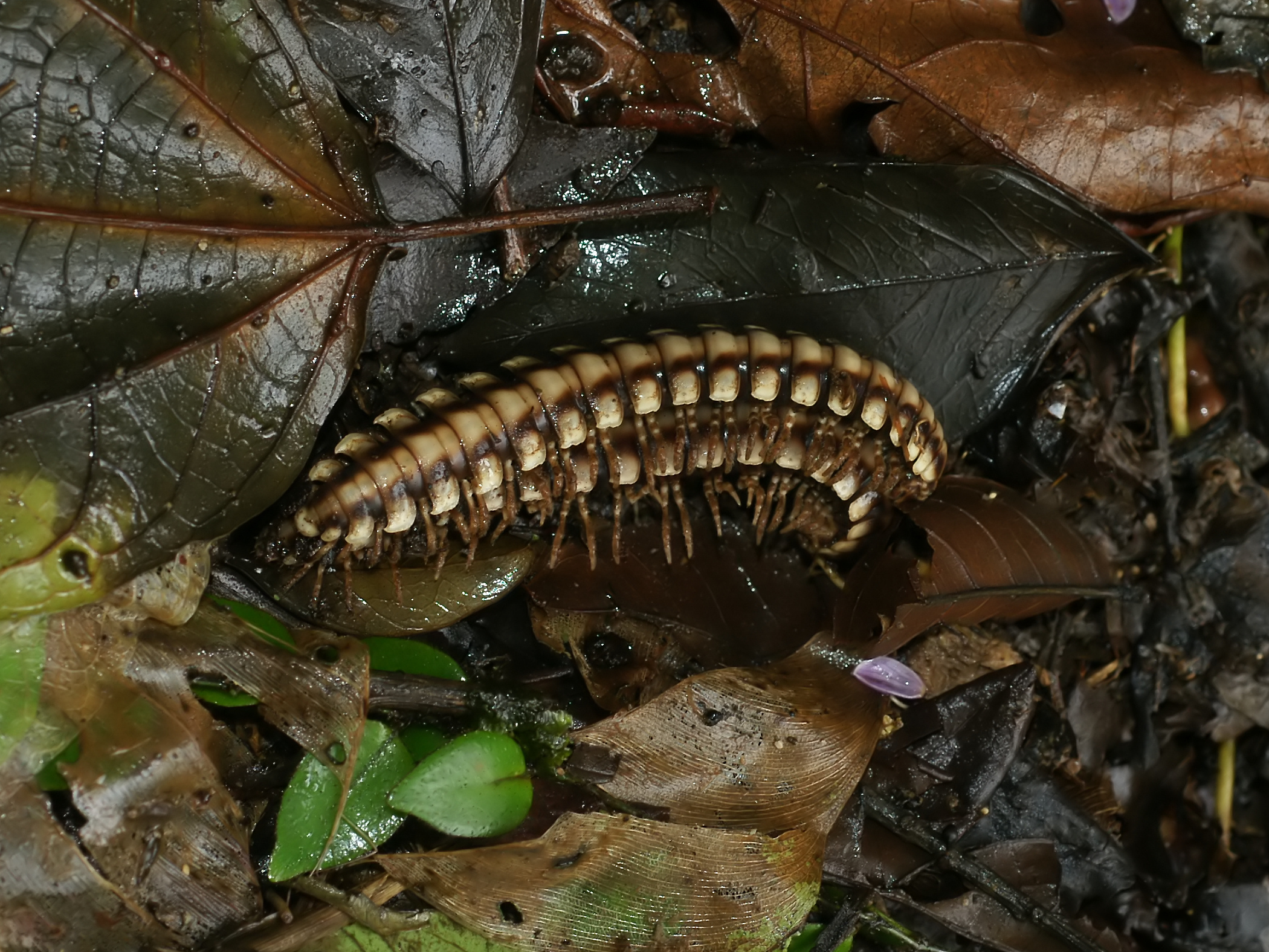 Typical pair of these species of millipede near La Selva Biological Station (OTS), Costa Rica. The male protects the female from copulation with other males.